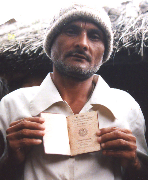 Person holding Bhutanese passport